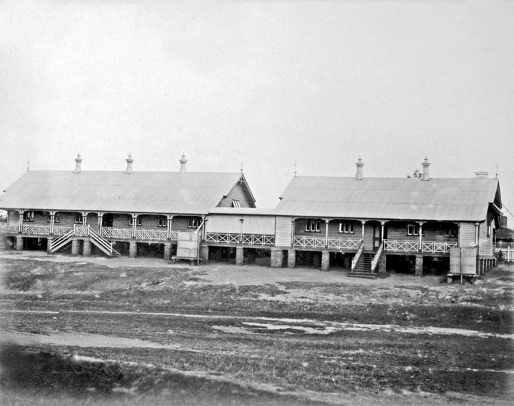 Central State School Boys, Bundaberg. (Bundaberg Central Boys State School, on Crofton Street, amalgamated with Bundaberg Central Girls and Infants State School on 15 Jan 1926 and was renamed Bundaberg Central State School.)